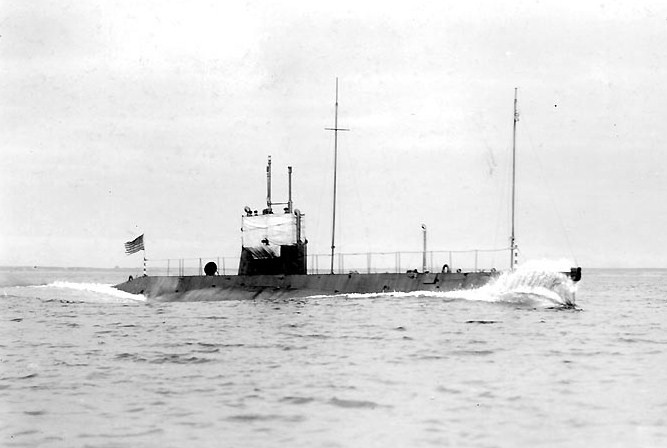 NH-51152 USS L-1 running trials Probably March 1916 (cropped)